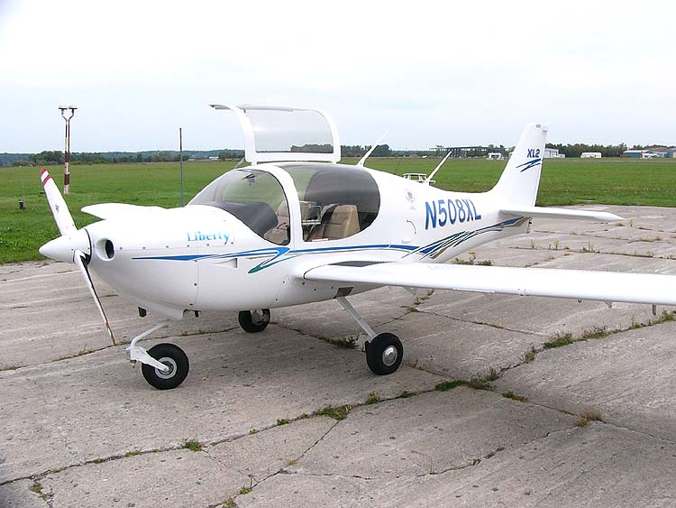 Liberty XL2 N508XL